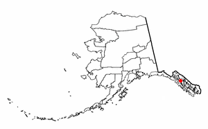 Adapted from Wikipedia's AK borough maps by Seth Ilys.